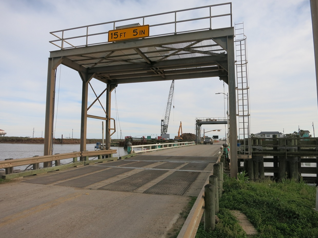 Photo shows the FM 457 swing bridge over the Intracoastal Waterway in Sargent, Texas. View is toward the southeast.